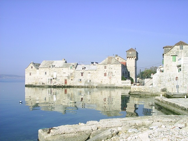 Town of Kaštel Gomilica near Split, Croatia